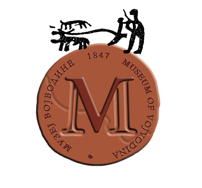 Trademark of the Archaeobotanical Garden of the Museum of Vojvodina Srpski (latinica): Žig Arheobotaničke bašte Muzeja Vojvodine